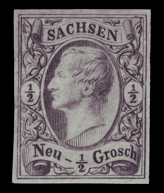 Definitive stamp: King John of Saxony (1801-1873) Graphics by Ulbricht Ausgabepreis: 1/2 NeuGroschen First Day of Issue / Erstausgabetag: 1859 Michel-Katalog-Nr: 8II (Sachsen)